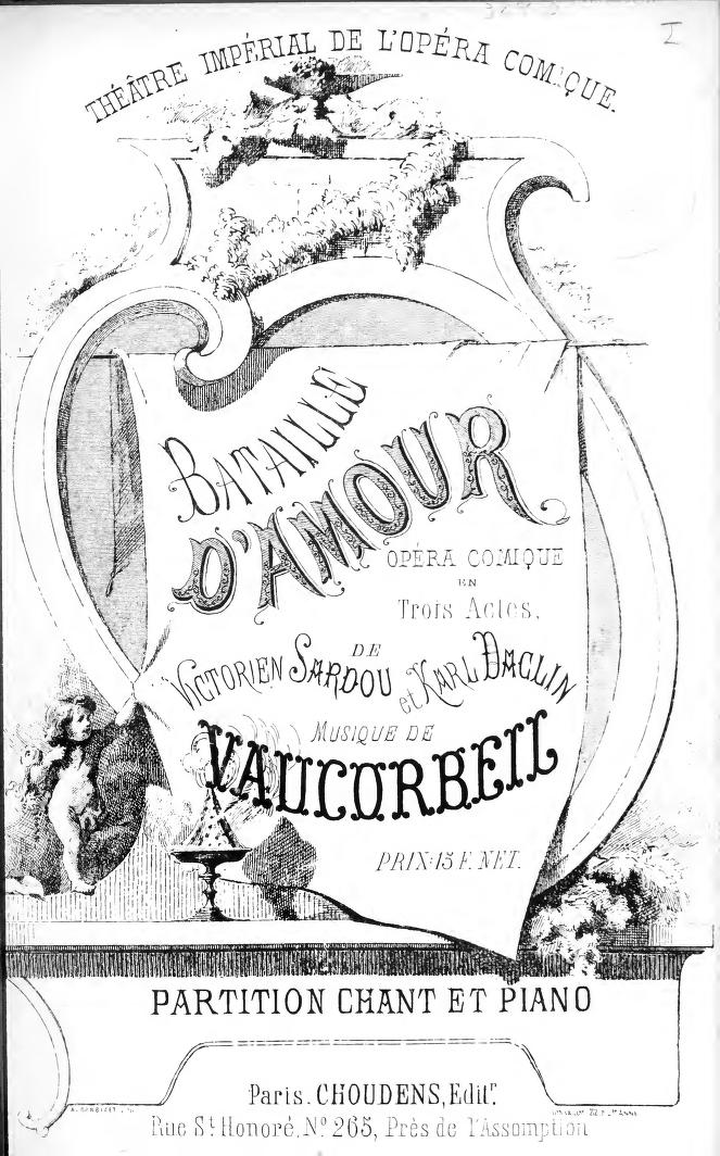 Cover of the piano/vocal score of Vaucorbeil's opera Bataille d'Amour